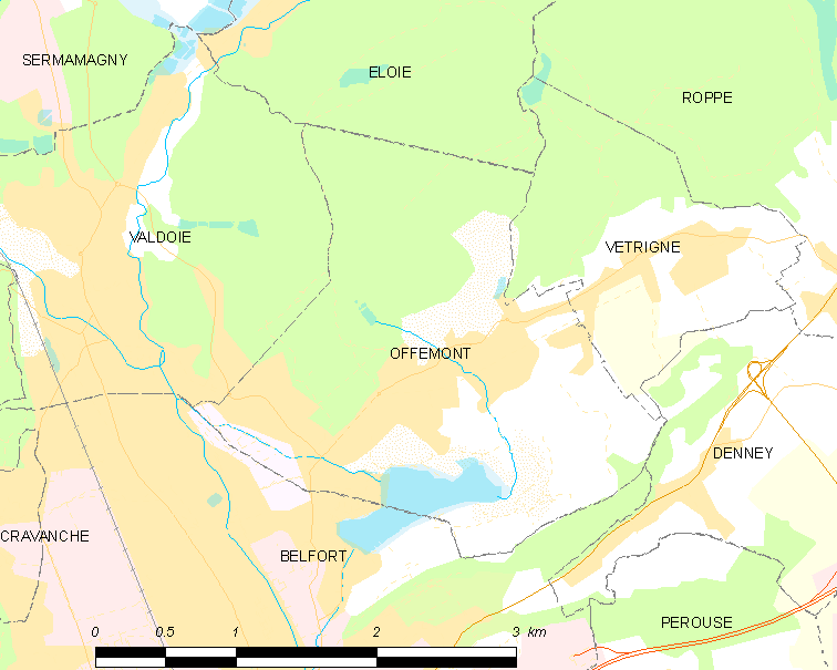 Map of French municipality Offemont